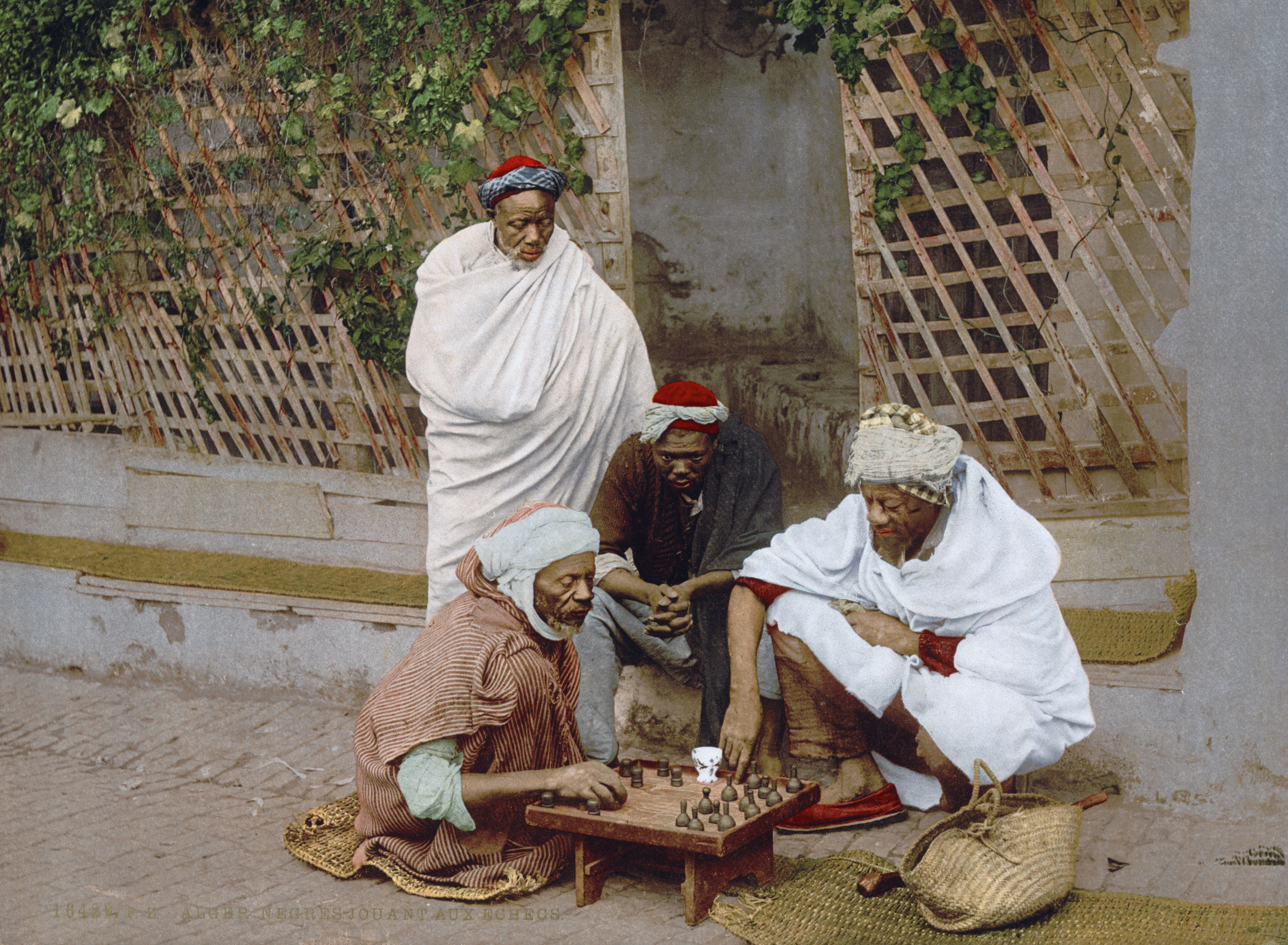 Men playing a variant of Chess. Algeria. Photochrom print.